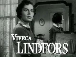 Cropped screenshot of Viveca Lindfors from the trailer for the film No Sad Songs for Me